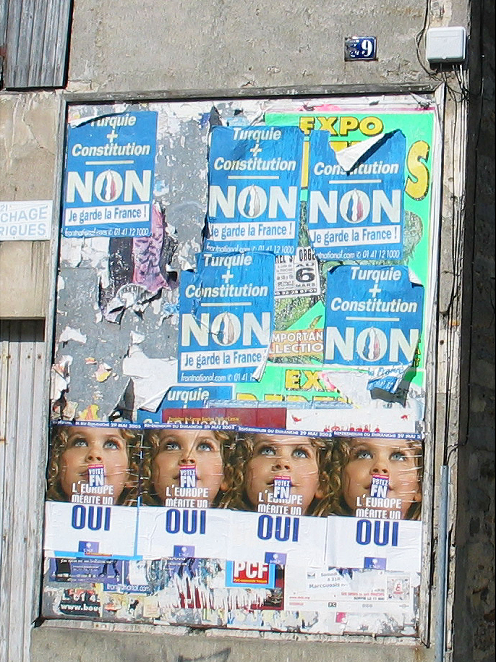 Posters in France on the eve of French referendum on EU constitution